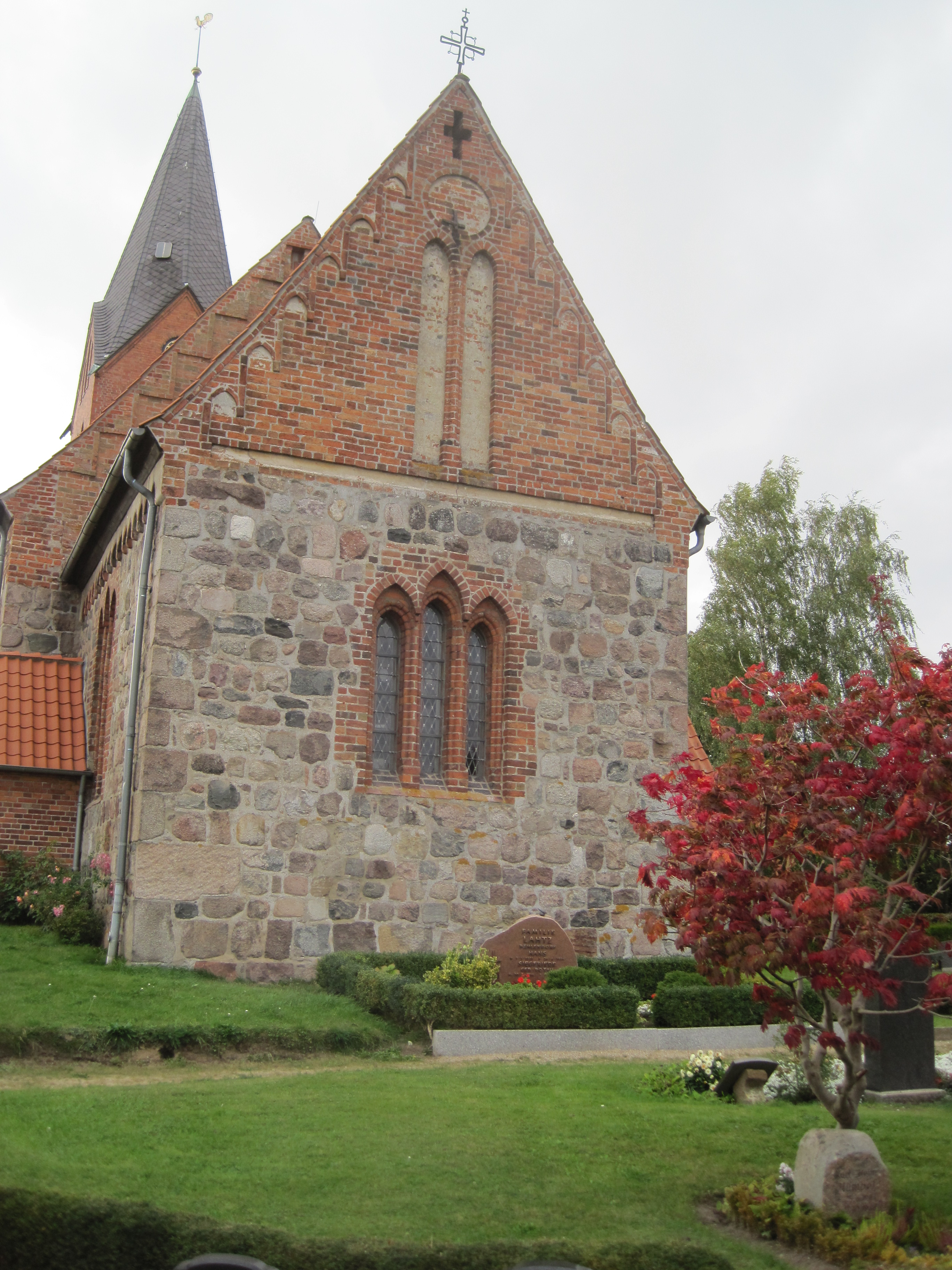 Church in Behlendorf